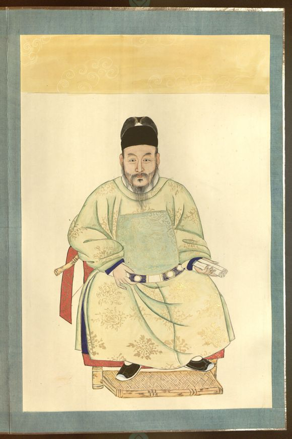 Mu Zeng, a local commander of Lijiang